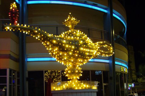 Aladdin's Lamp, Neon Museum at the Fremont Street Experience